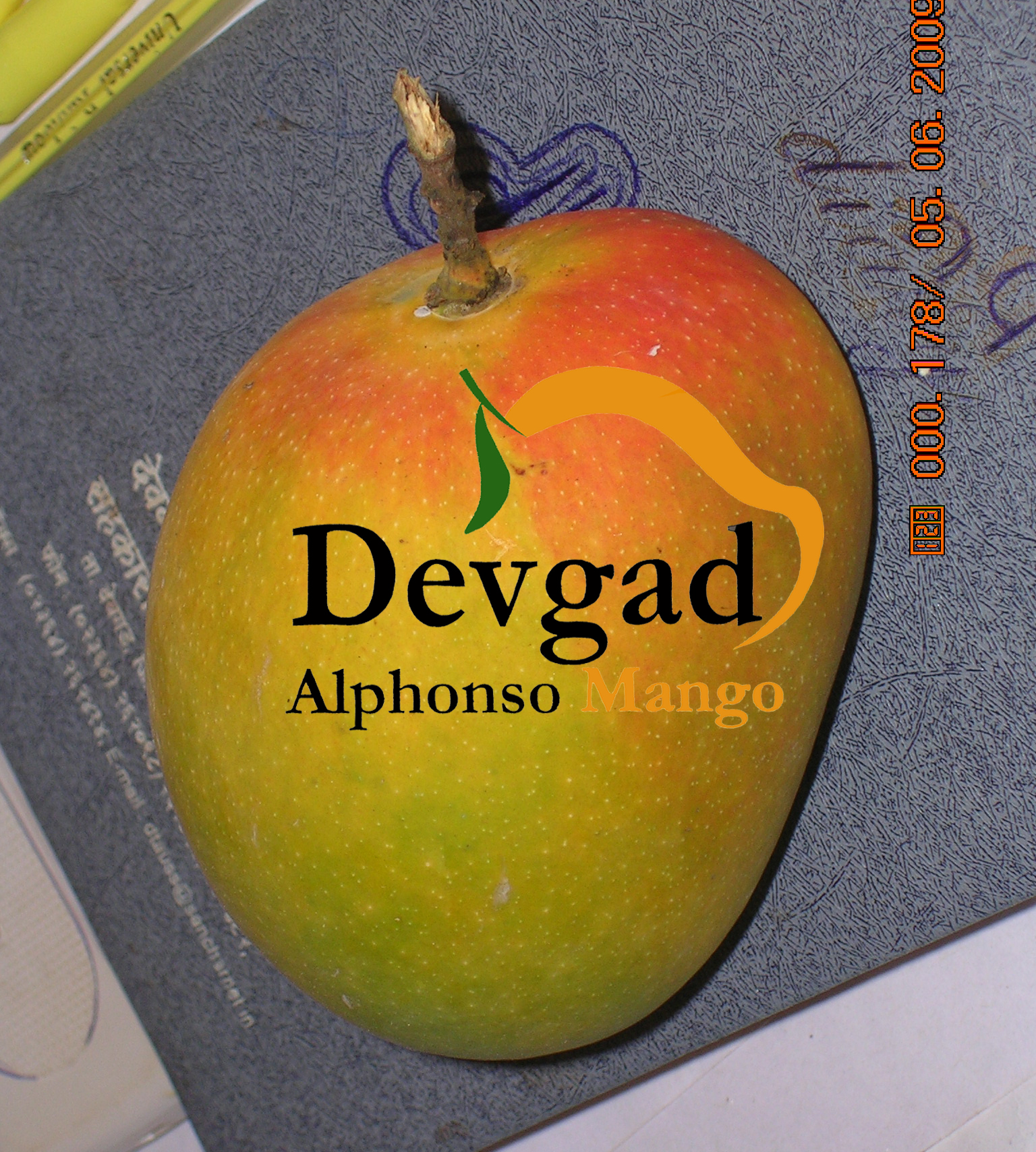 The picture of what the original authentic Devgad Alphonso mango looks like. Picture Courtsey Devgad Taluka Mango Growers Co-op Society